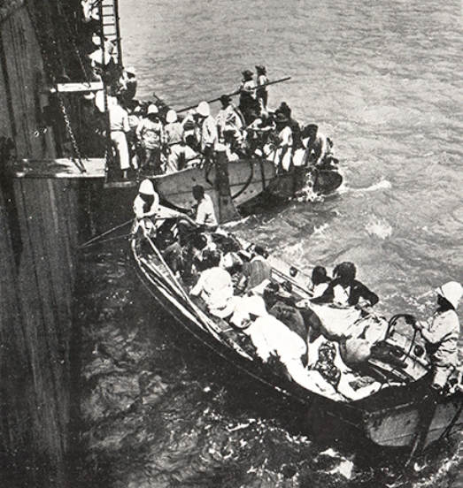 Armenian refugees from Musa Dagh boarding a French warship off the Syrian coast in September 1915.